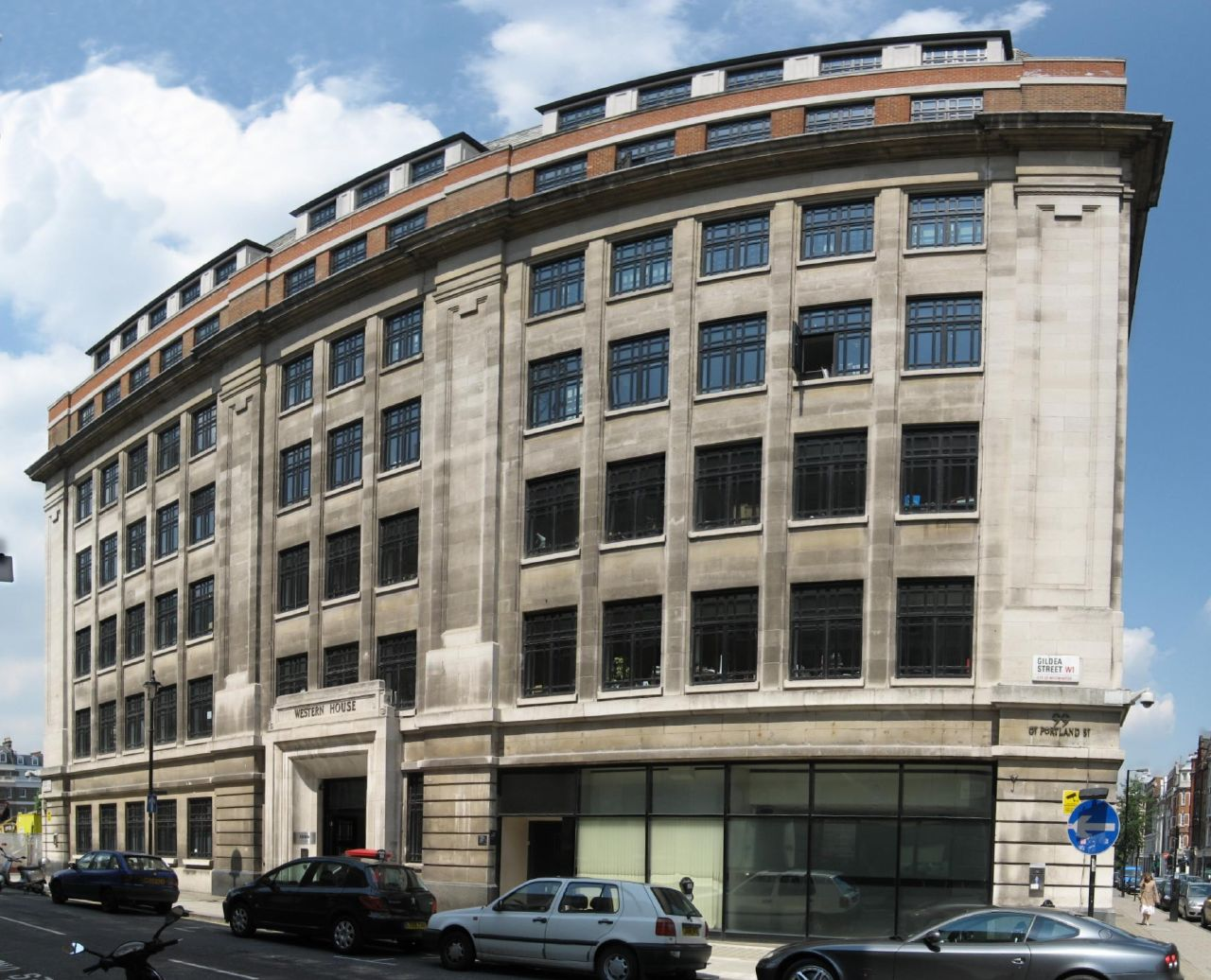 Since renamed Wogan House.